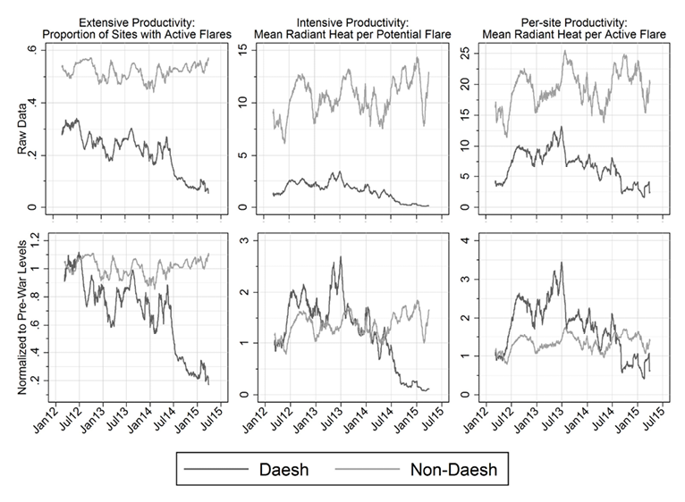 "Using data from NOAA on daily flaring activity in Syria and Iraq combined with estimates of Daesh control, we calculated a range of indicators of oil production. Each column of the figure shows a different measure of production: the number of sites flaring on any given day, the average intensity of flaring activity over all sites, which captures total production, and the average intensity of flaring at active sites, which captures the intensity of production among working sites. The top row of the figure shows the raw figures and the bottom row normalizes by activity before the war escalated, March-June 2012, to highlight changes over time more starkly. As anticipated, Daesh’s productive base was small to start with and dropped rapidly (column 1), its total productivity has generally fallen since January 2014 (column 2), and the productivity per well is quite poor compared to that in non-Daesh areas of Iraq and Syria."